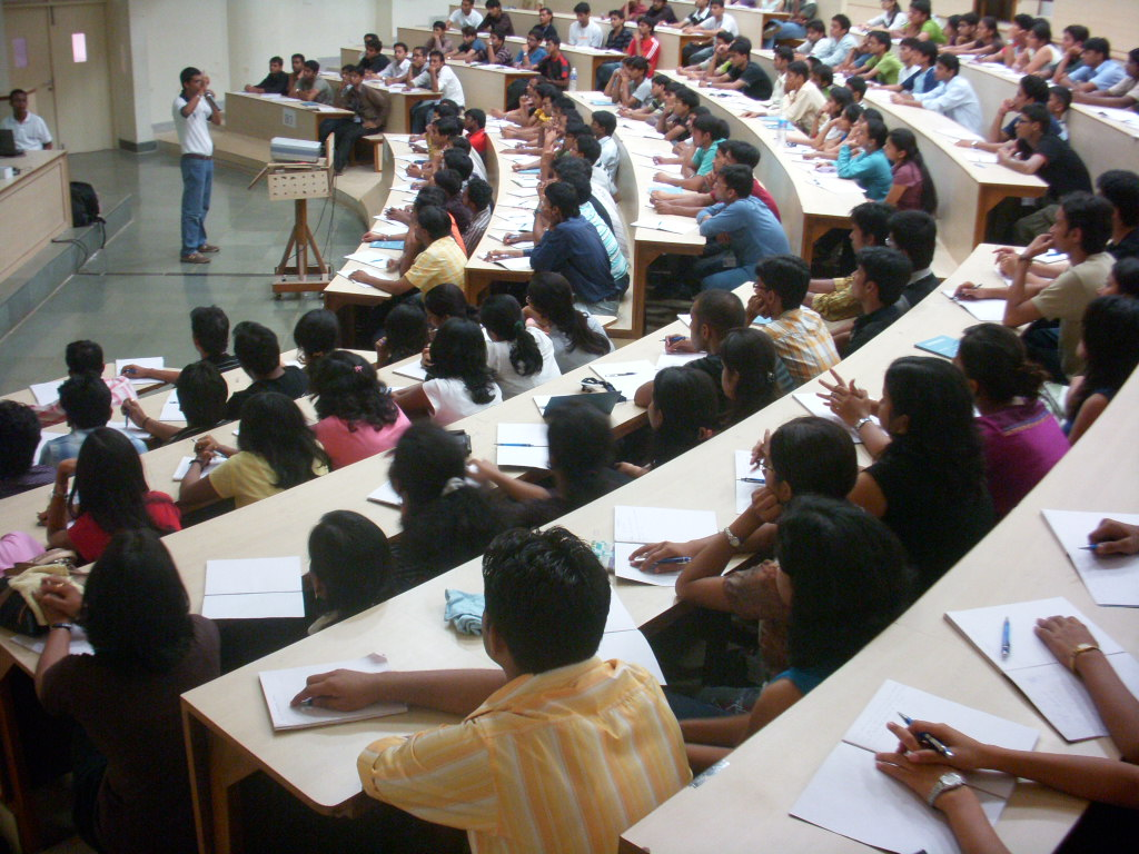 Nettech Students at BITS-Pilani Goa Campus [Summer 2009]